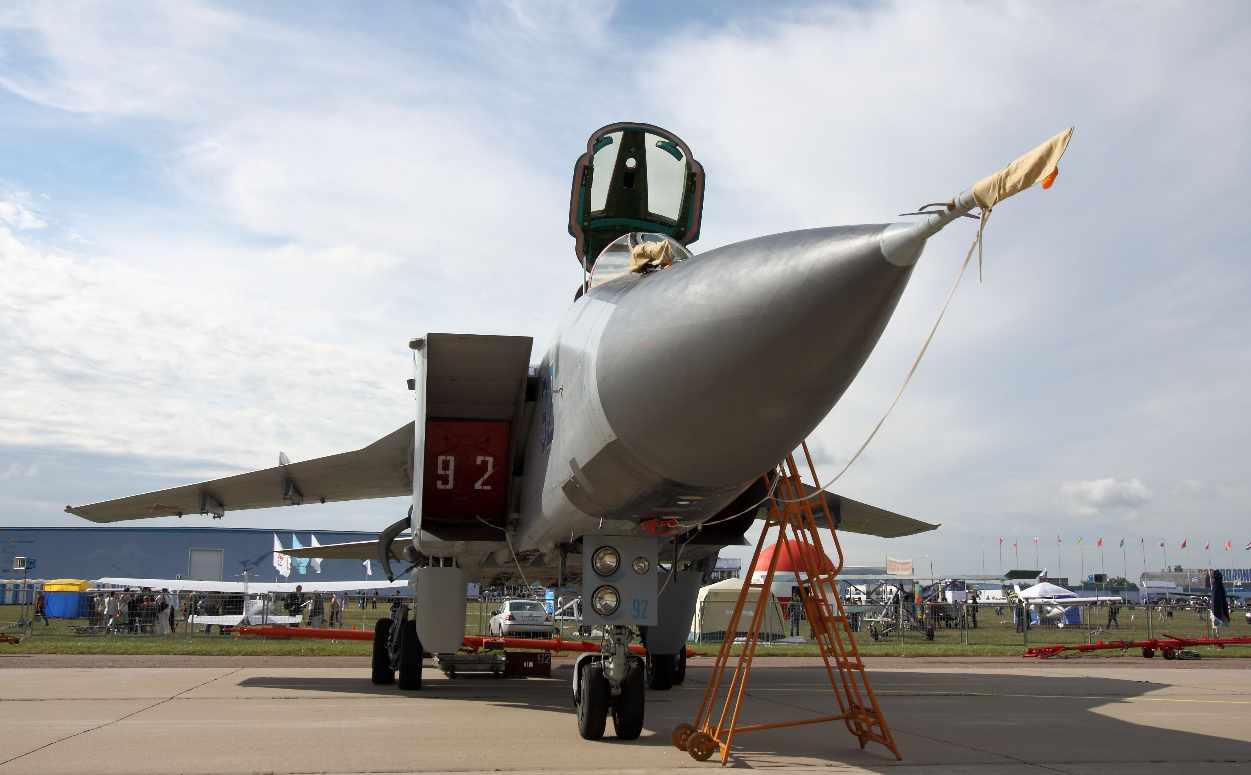 Fighter interceptor Mikoyan-Gurevich MiG-31BM (The international aerospace salon MAKS-2011)